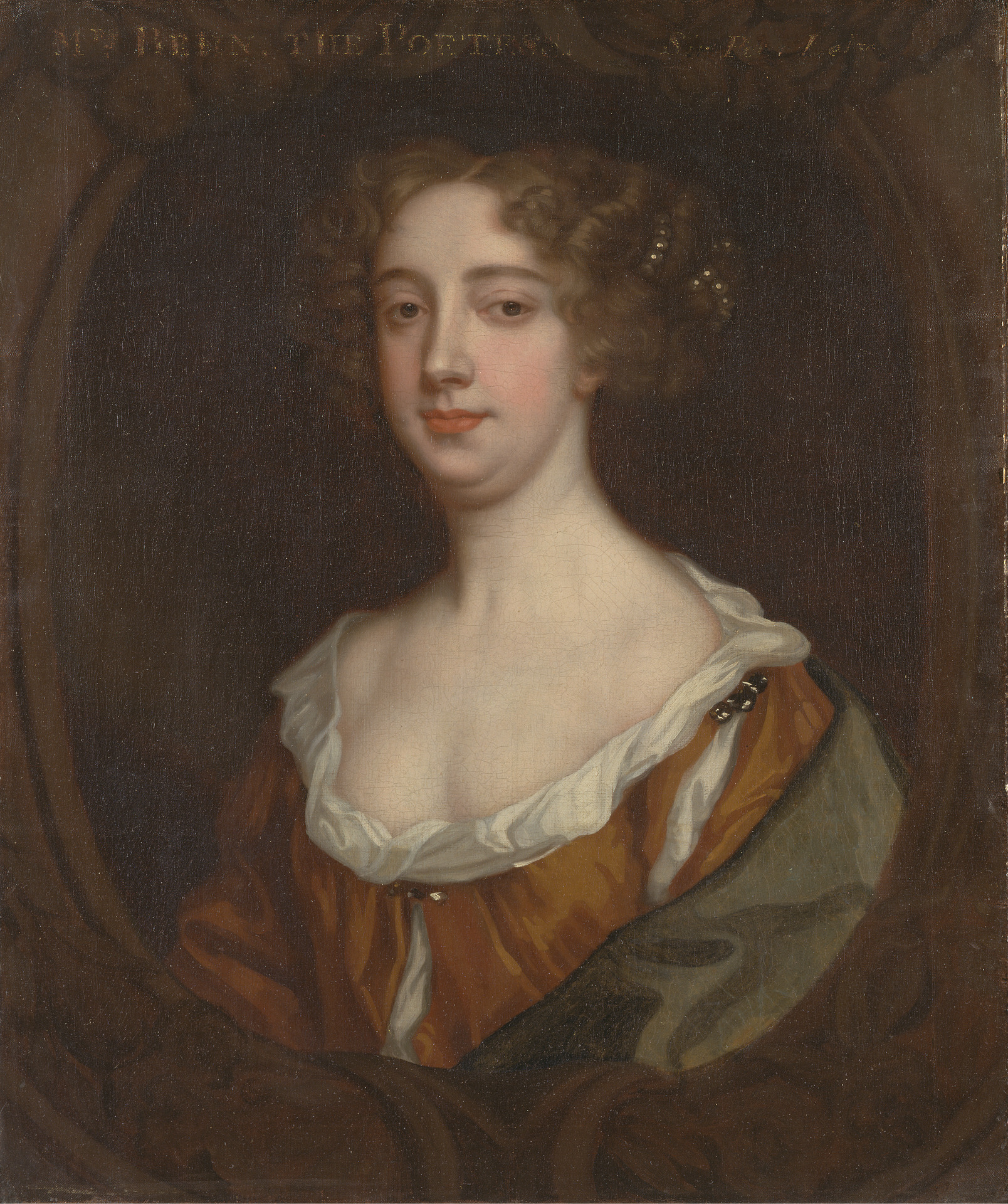 "Aphra Behn," by the Anglo-Dutch artist Sir Peter Lely, oil on canvas, ca. 1670. 30 1/4 inches x 25 1/4 inches (76.8 cm x 64.1 cm). Courtesy of the Yale Center for British Art, Yale University, New Haven, Connecticut.